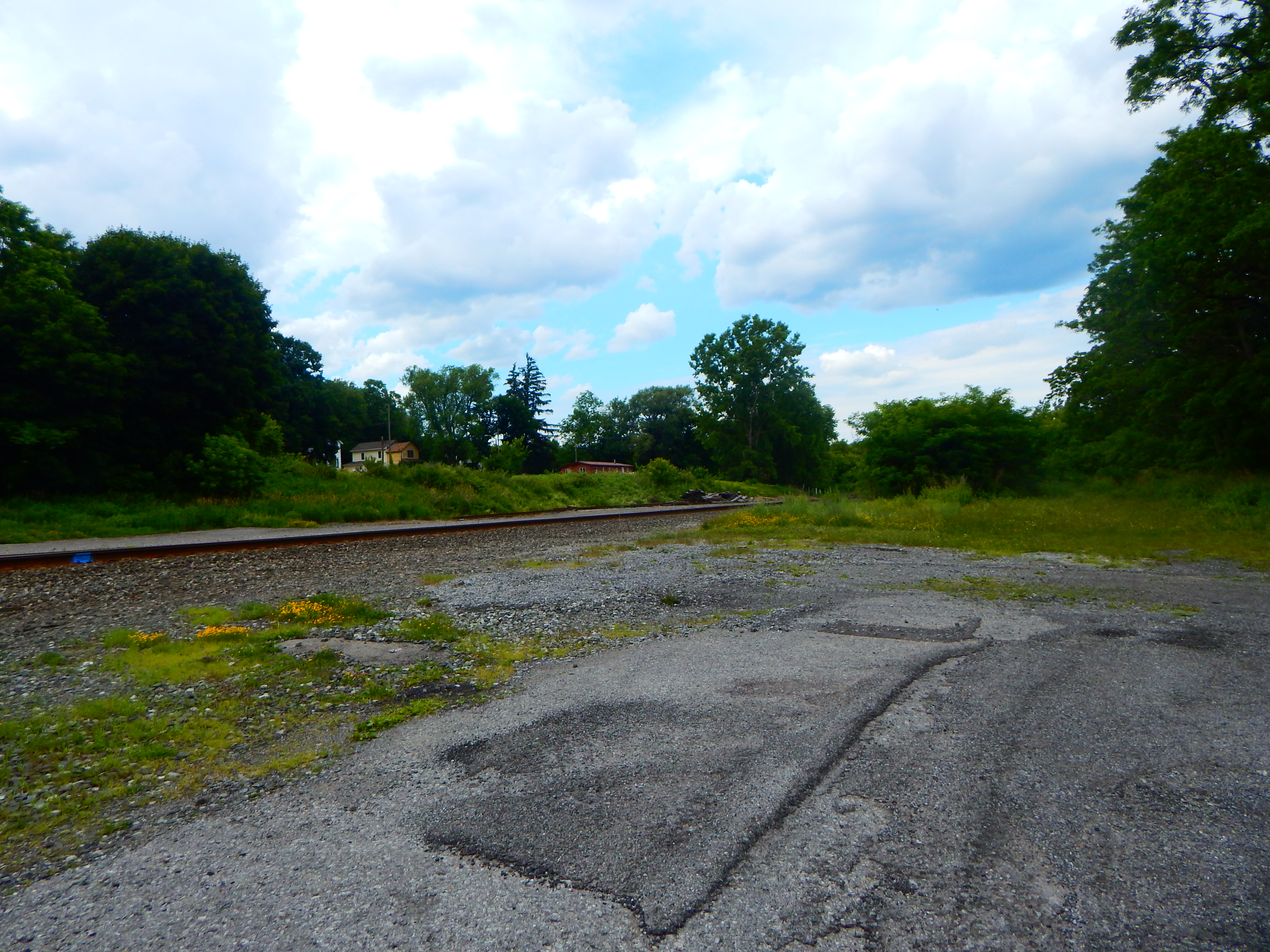 Warsaw station site for the Erie Railroad in Warsaw, New York.